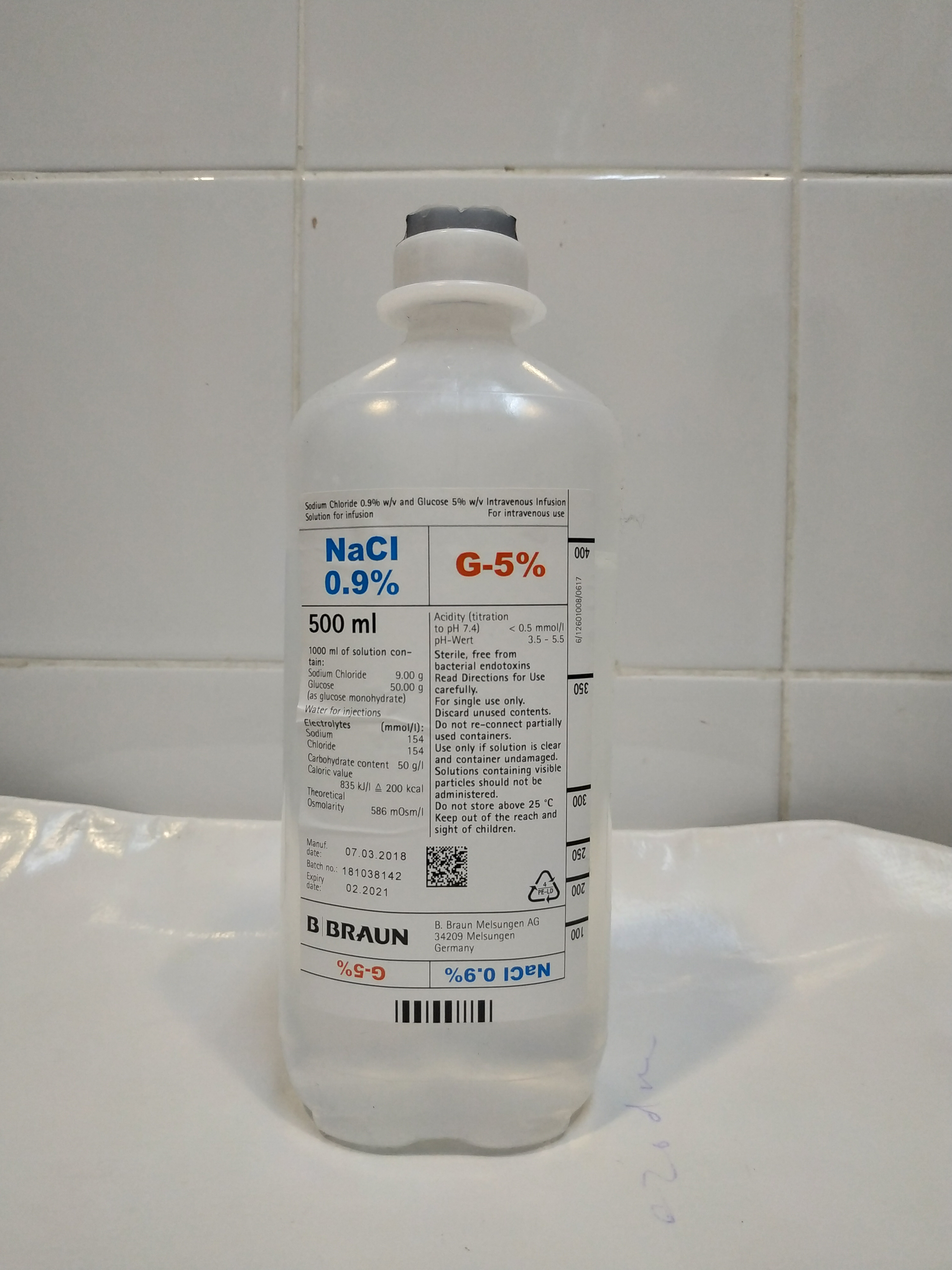 Dextrose 5% in 0.9% Sodium Chloride